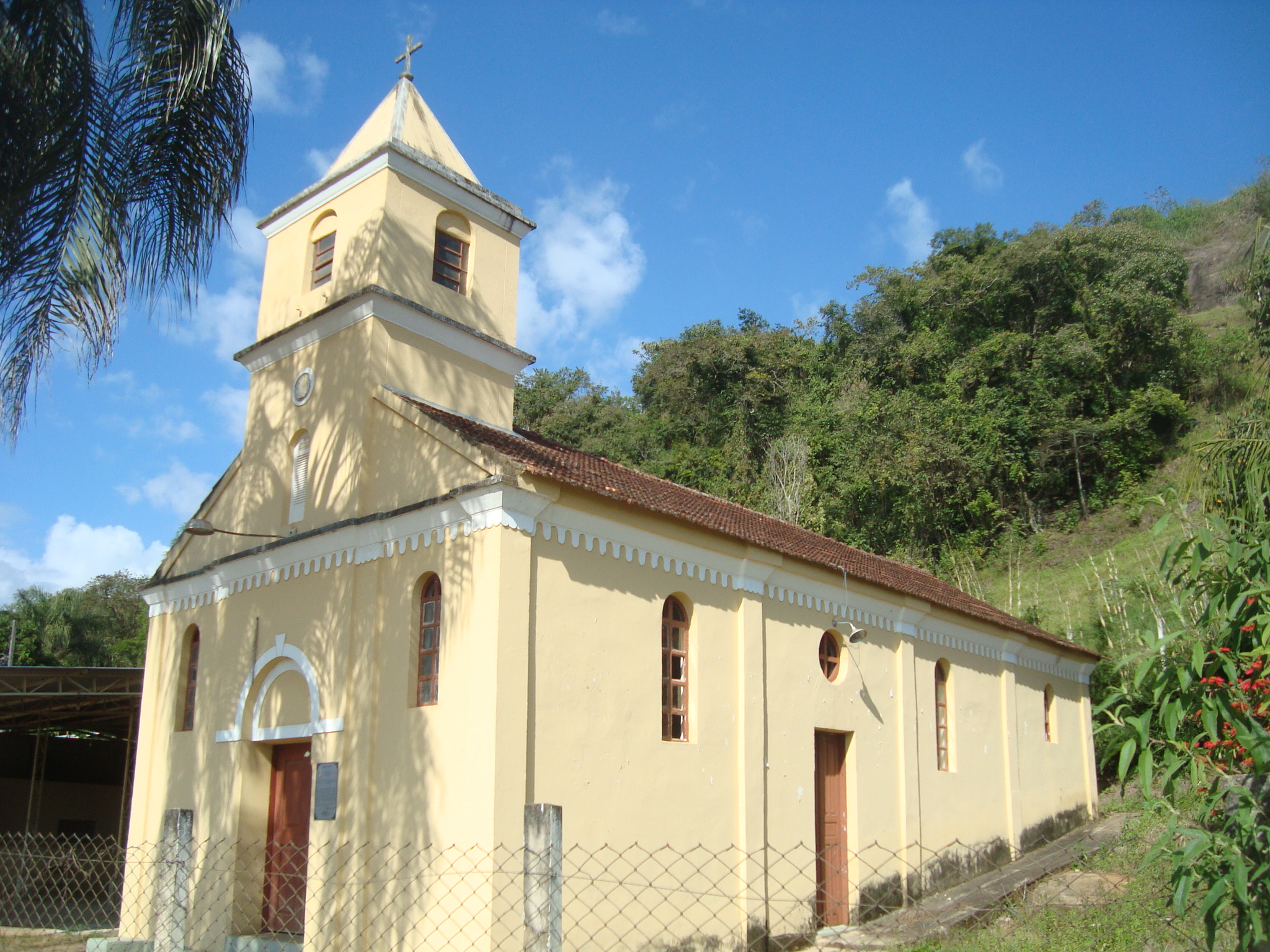 Our Lady of Mount Carmel chapel in Piranguinho, Minas Gerais, Brazil